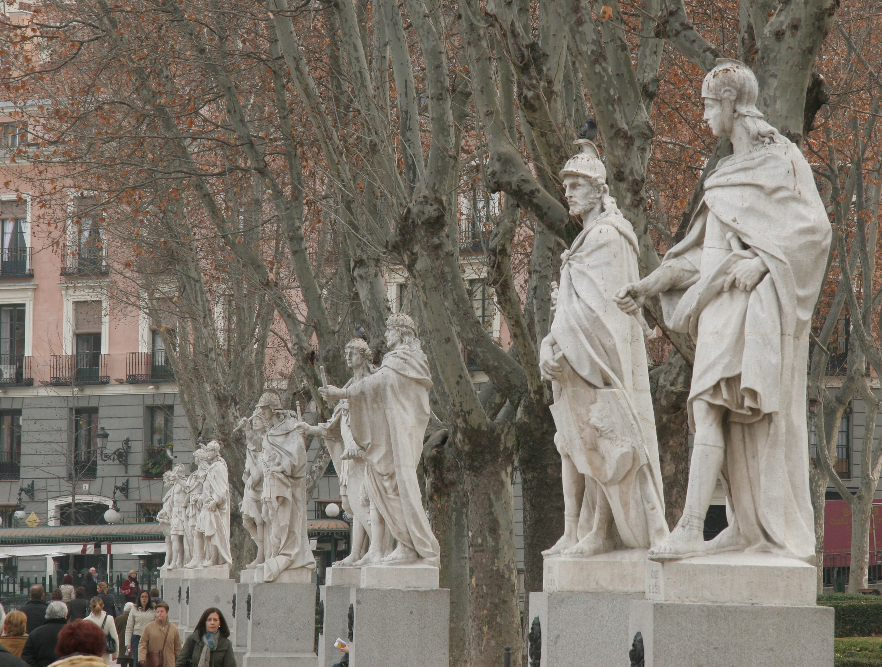 Partial view of Plaza de Oriente (square) in Madrid (Spain), with some of the statues of monarchs from the Royal Palace sculpted between 1750 and 1753.